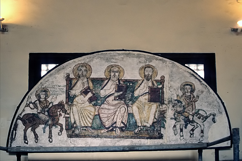 Lunette: Apollo, Phib and Papohe, and warrier saints, Monastery of Bawit, Coptic Museum, Cairo, Egypt